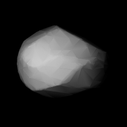 3D convex shape model of 2384 Schulhof, computed using light curve inversion techniques. J. Hanuš, J. Ďurech, M. Brož, B. D. Warner (June 2011). "A study of asteroid pole-latitude distribution based on an extended set of shape models derived by the lightcurve inversion method". Astronomy and Astrophysics 530: A134. ISSN 0004-6361. arXiv